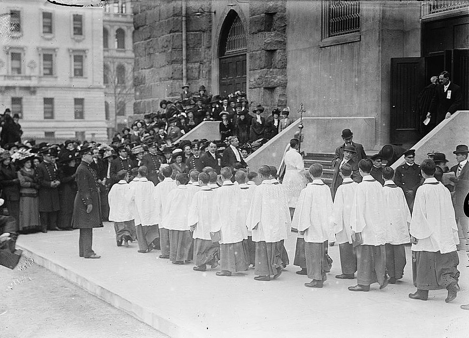 Consecration of the Cathedral of St. John the Divine, New York City